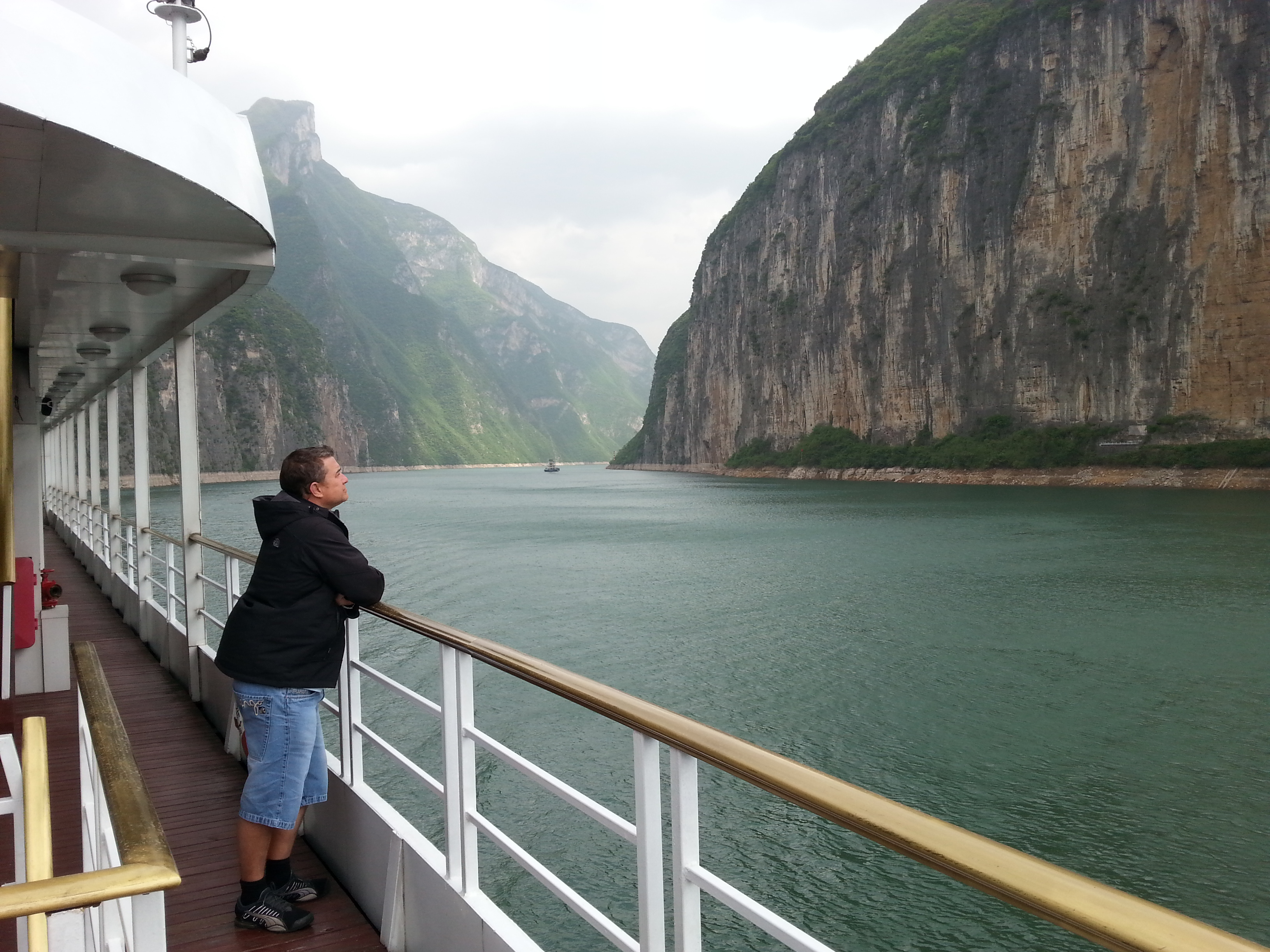 One of three gorges on Yangtze river